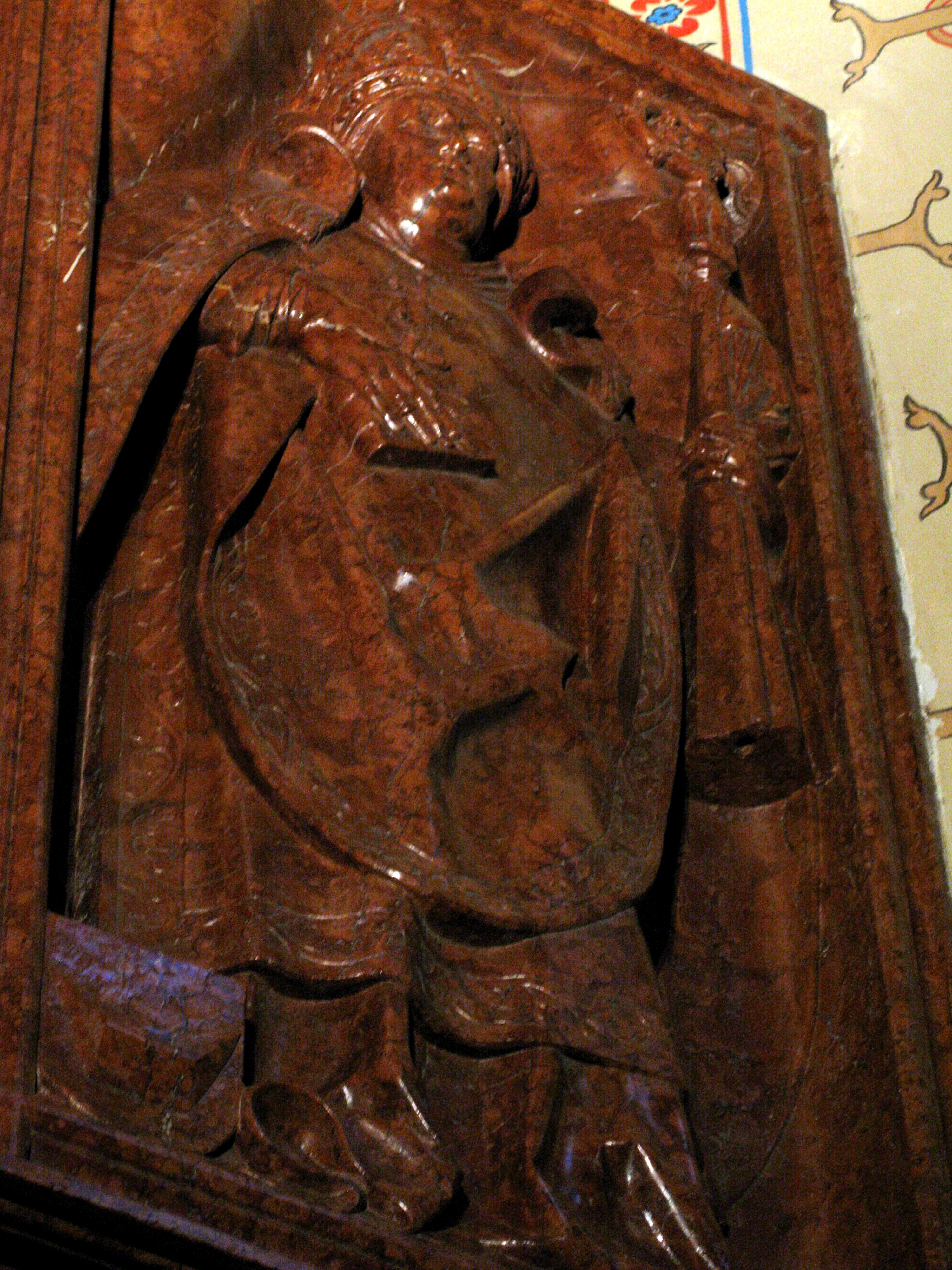 Tomb effigy of Bishop Piotr z Bnina by Veit Stoss